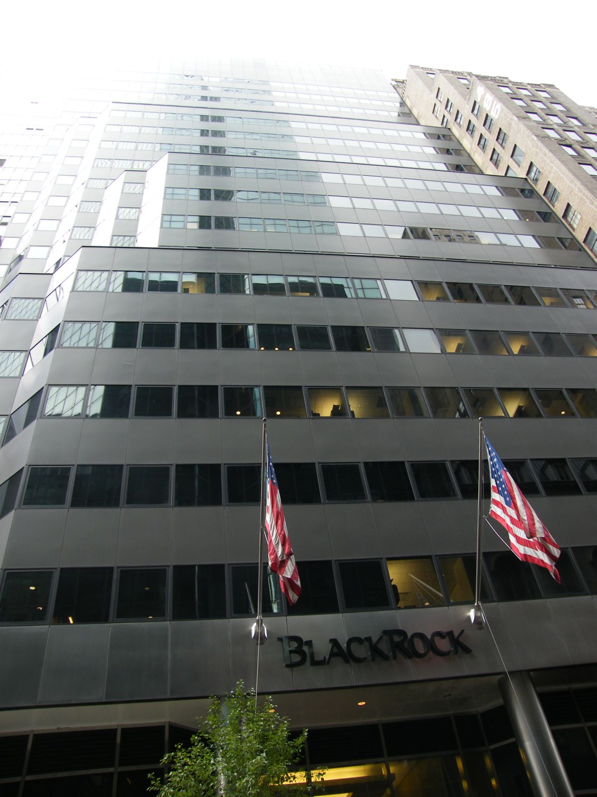 BlackRock Group